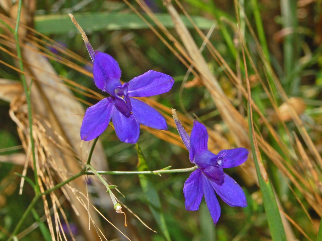 Consolida regalis - Cerreto Ratti, Alessandria, Italy